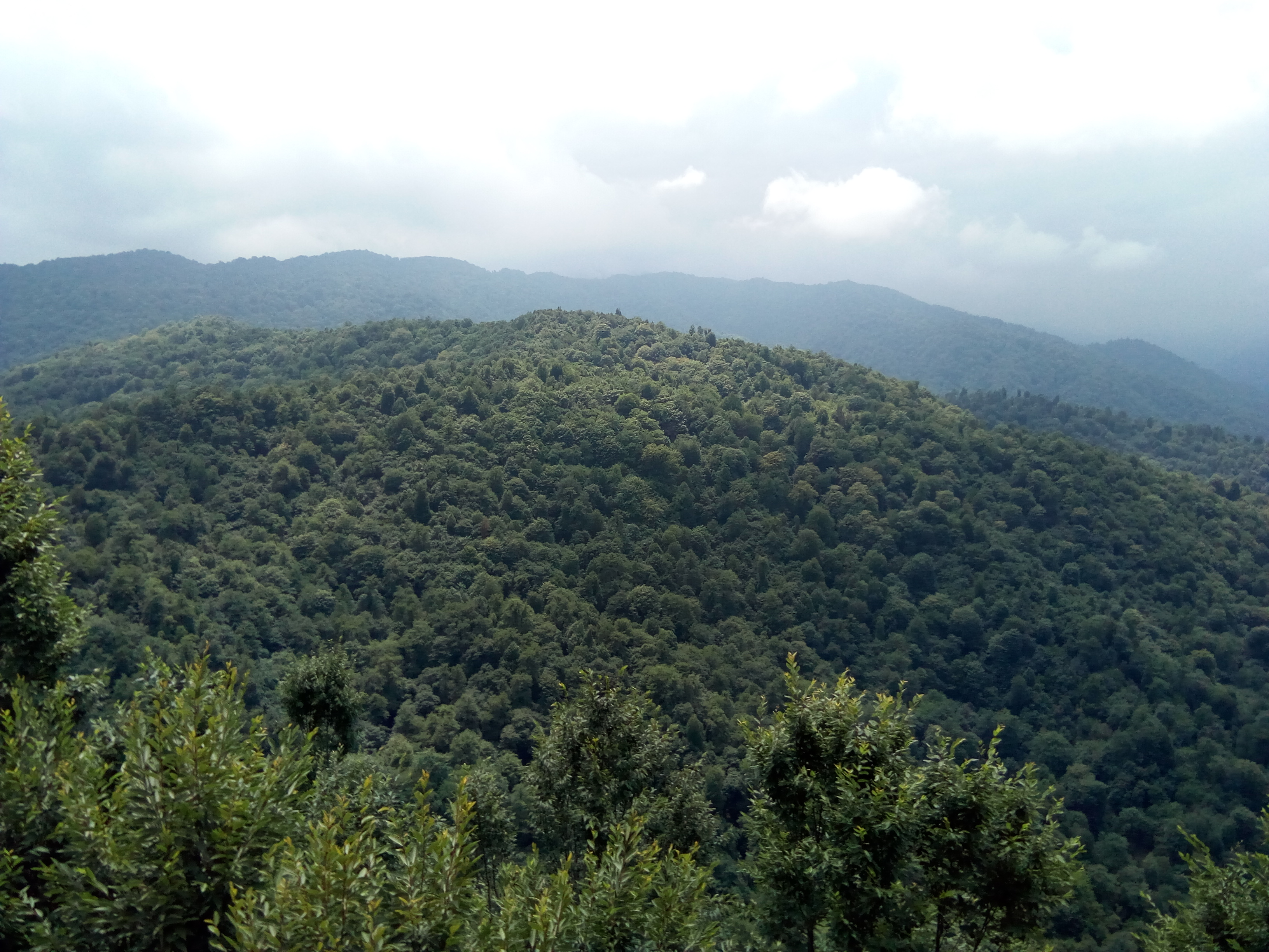 Ramsar Amusement Park